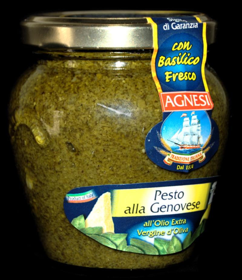 A Jar of ready made Pesto sauce